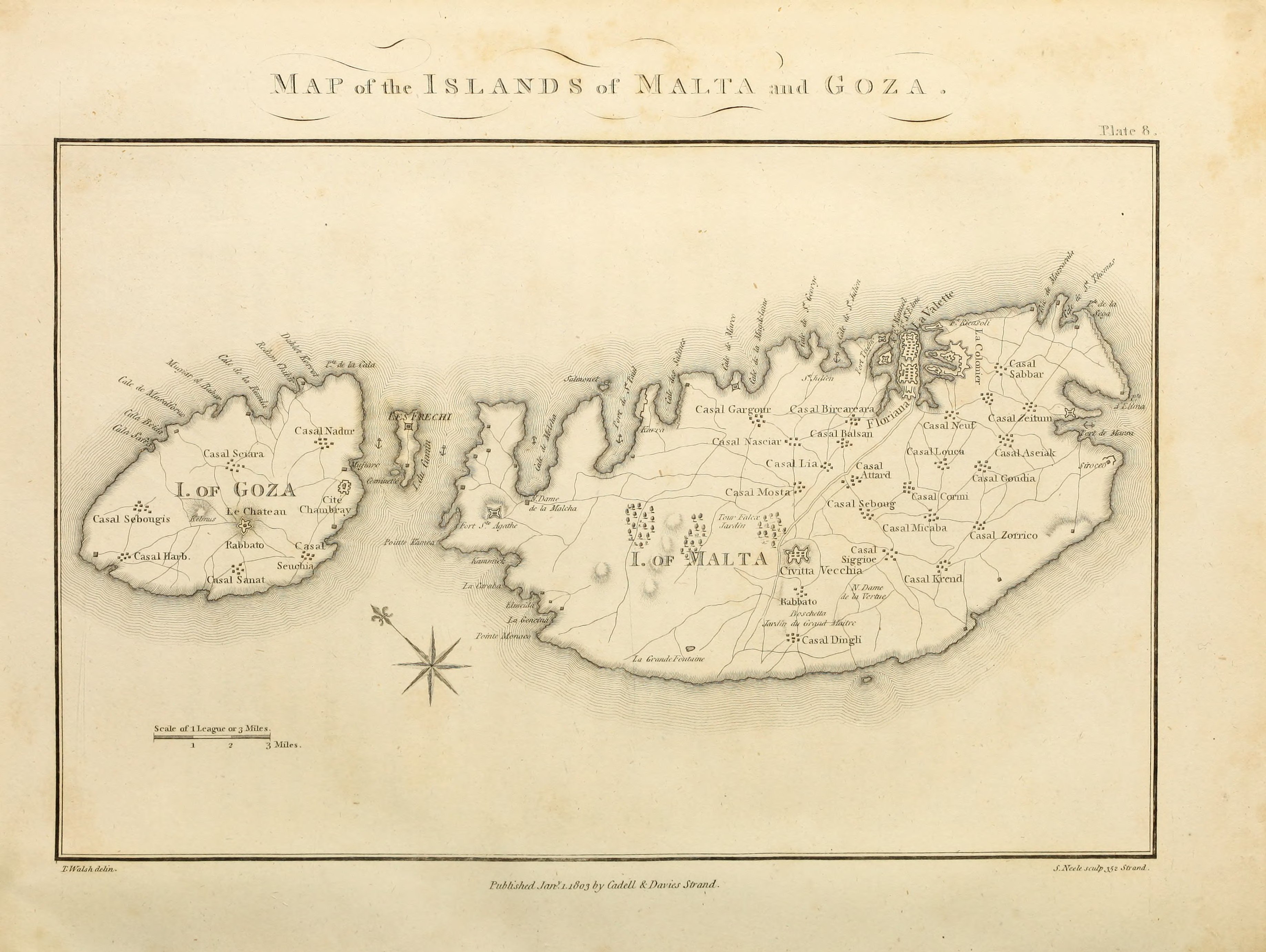 Map of the Islands of Malta and Goza (1803)